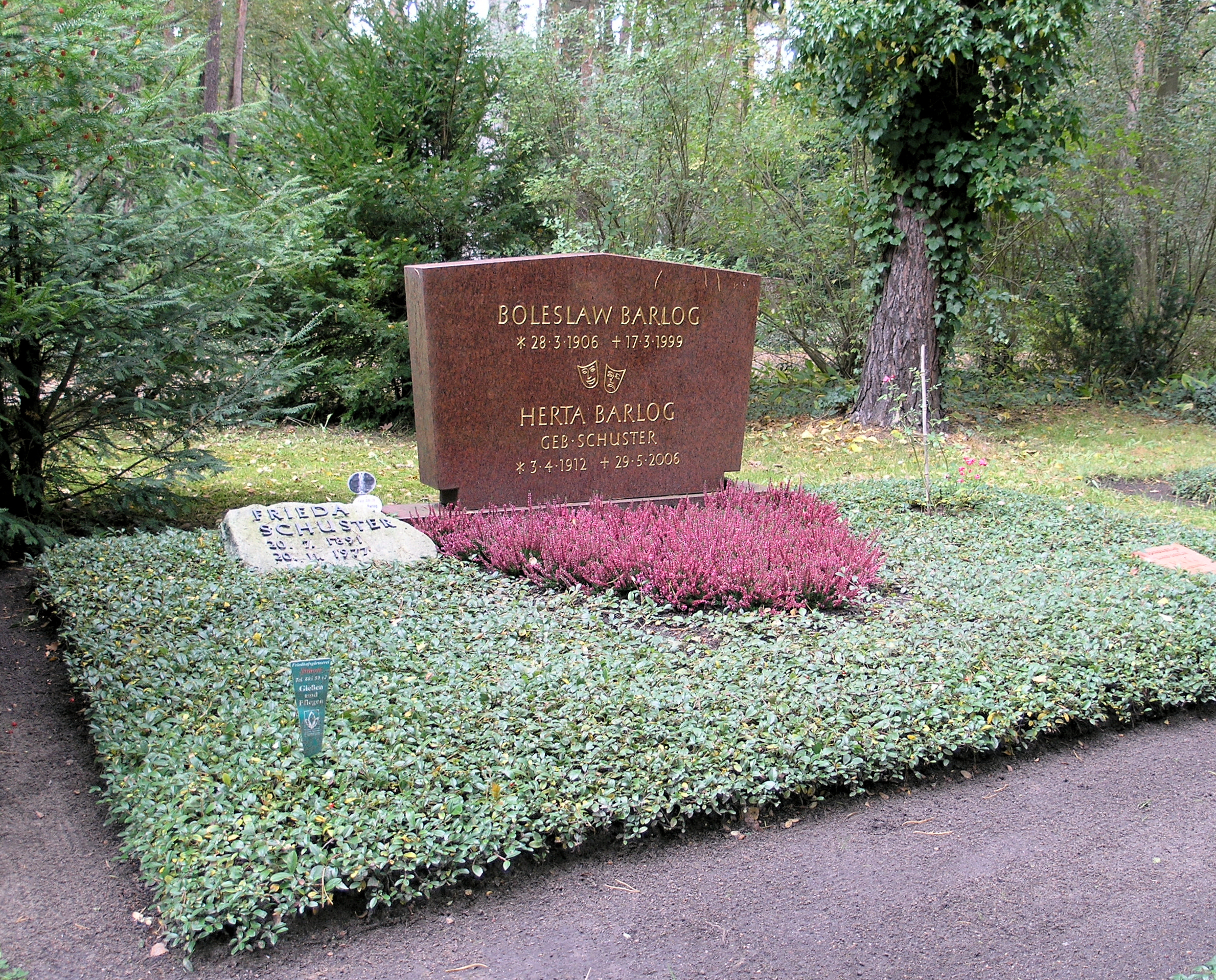 "Ehrengrab" (grave of honor), Boleslaw Barlog, Potsdamer Chaussee 75, Berlin-Nikolassee, Germany Koordinate:52°25′23″N 13°12′38″E / 52.42306°N 13.21056°E